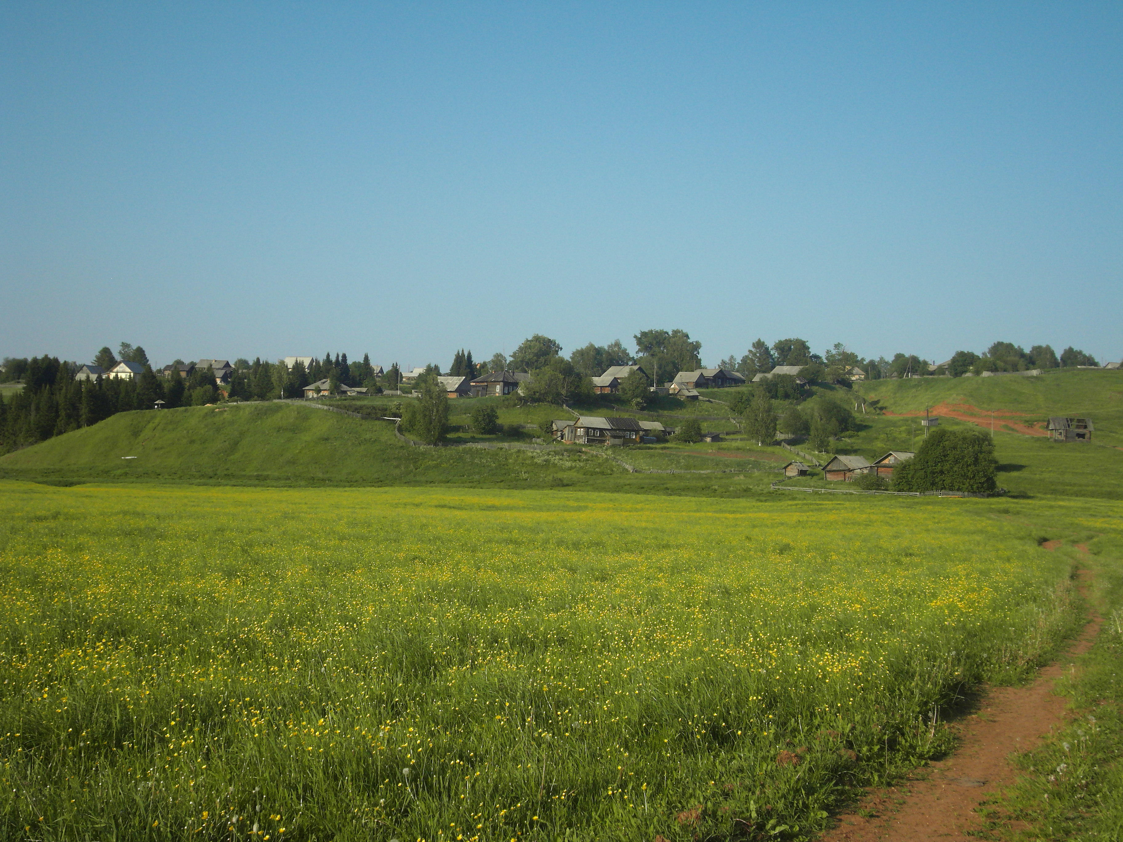 View of the Biserovo from Kama river